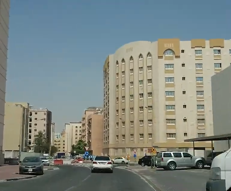 Large apartment buildings near a roundabout in the Al Mansoura district of Doha, Qatar.